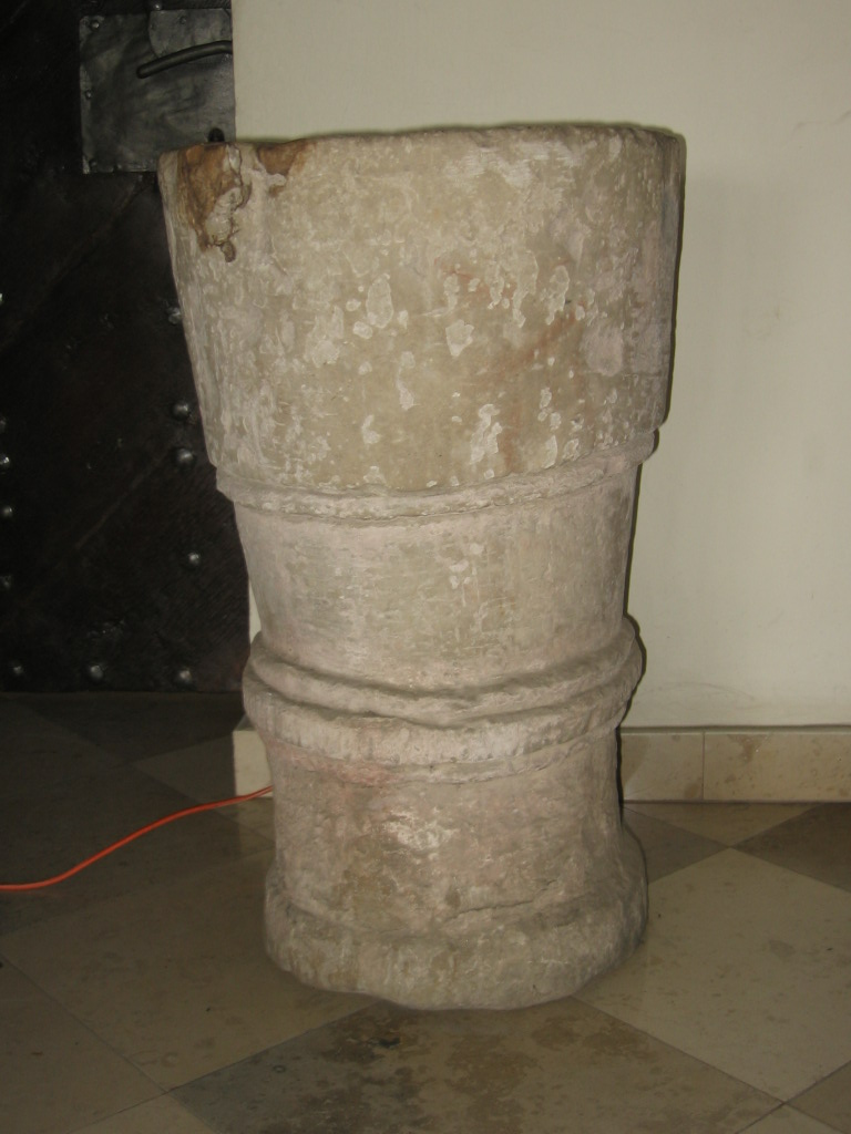 Gothic stoup in southern entrance to the churche of Birth of Blessed Virgin Mary in Tulce, Kleszczewo Commune, Poznań County, Greater Poland Voivodeship, Poland. XV- XVI century